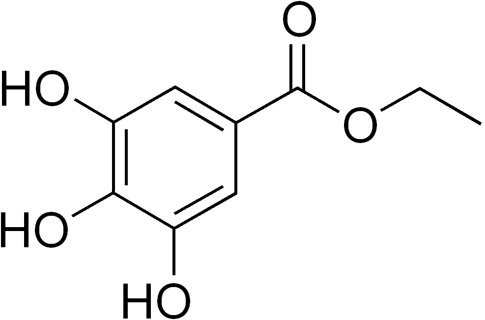 chemical structure of ethyl gallate